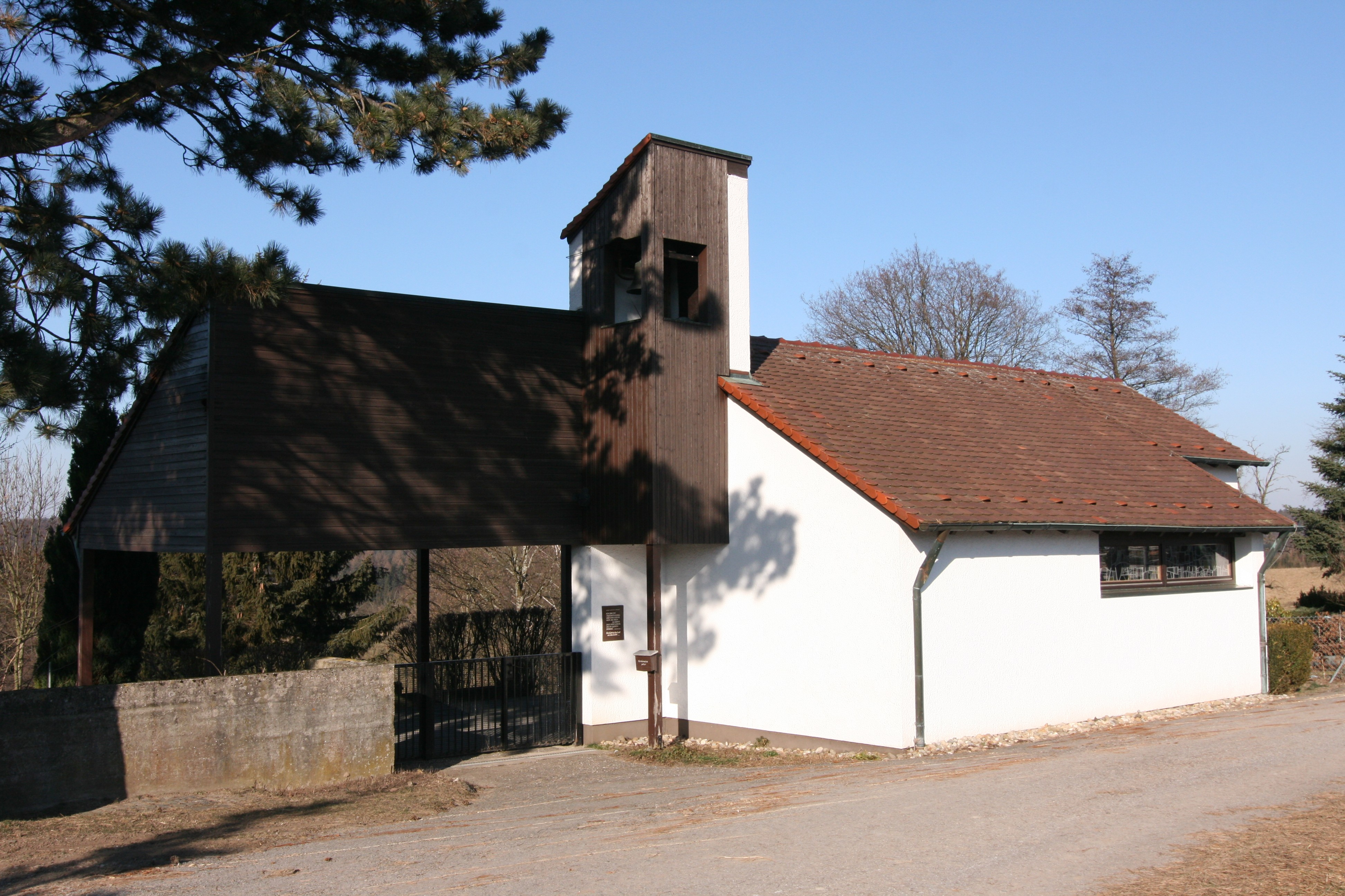 Protestant Resurrection chapel in Beilstein-Stocksberg